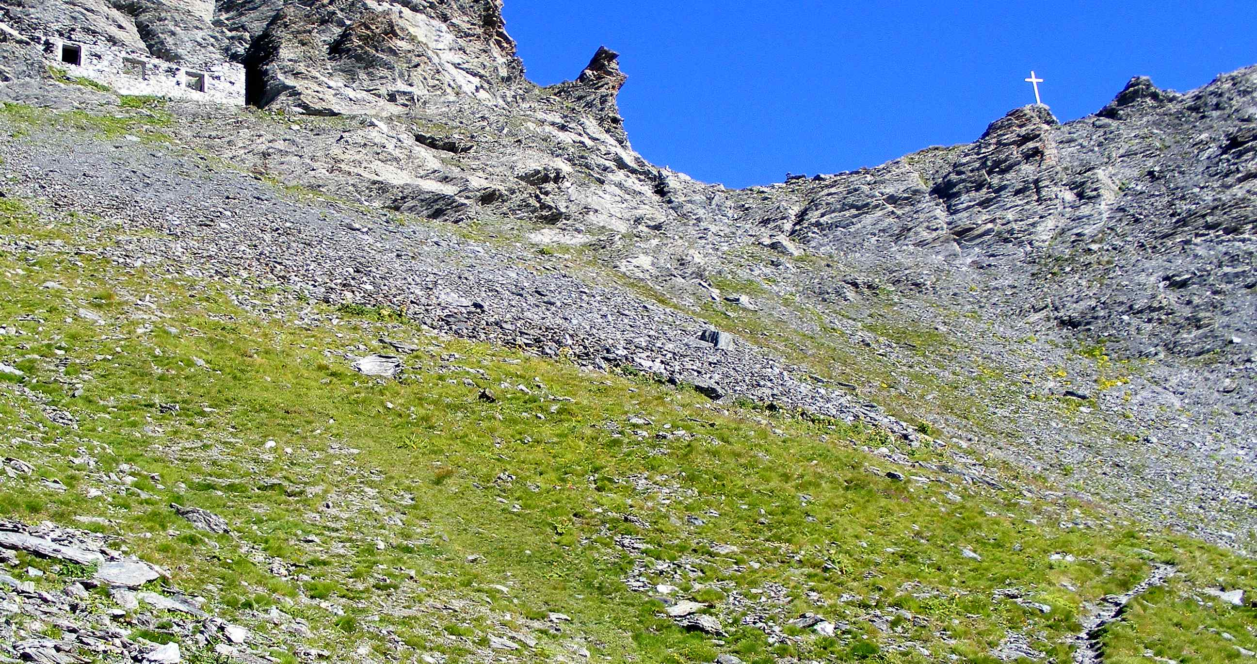 Pelouse pass, italian side (Cottian Alps, Italian/French border)